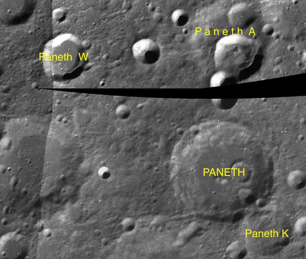 Parts of the charts LAC-9, LAC-21 used for the presentation